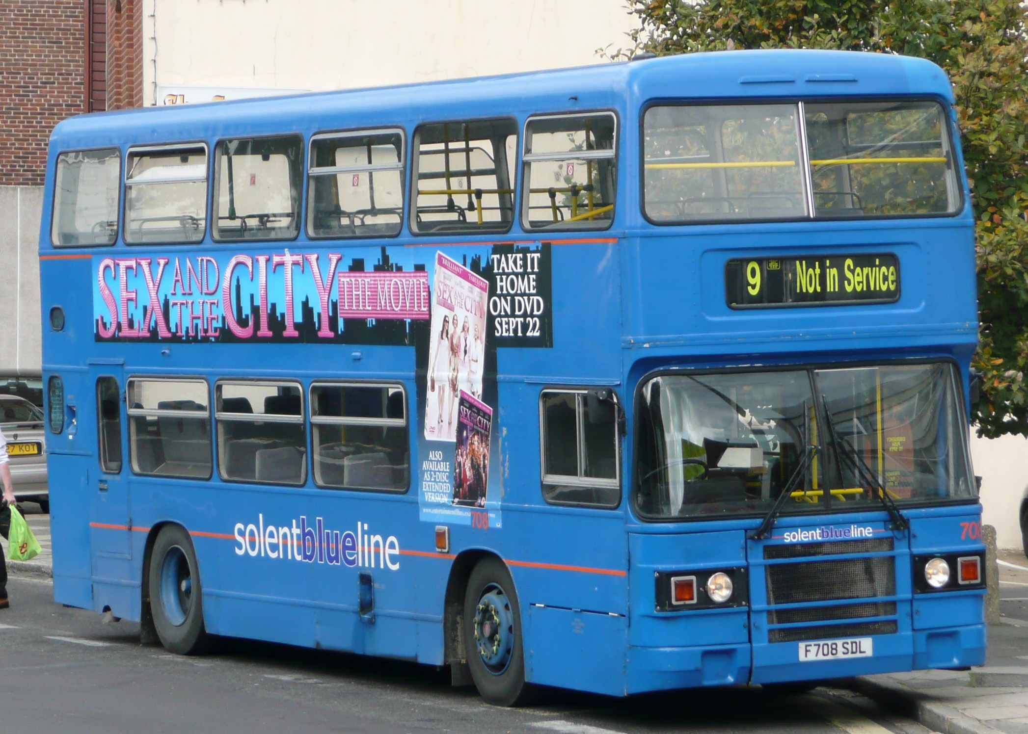 A Leyland Olympian bus in Southampton, England. It is Bluestar's 708 (F708 SDL), still in the Solent Blue Line livery.